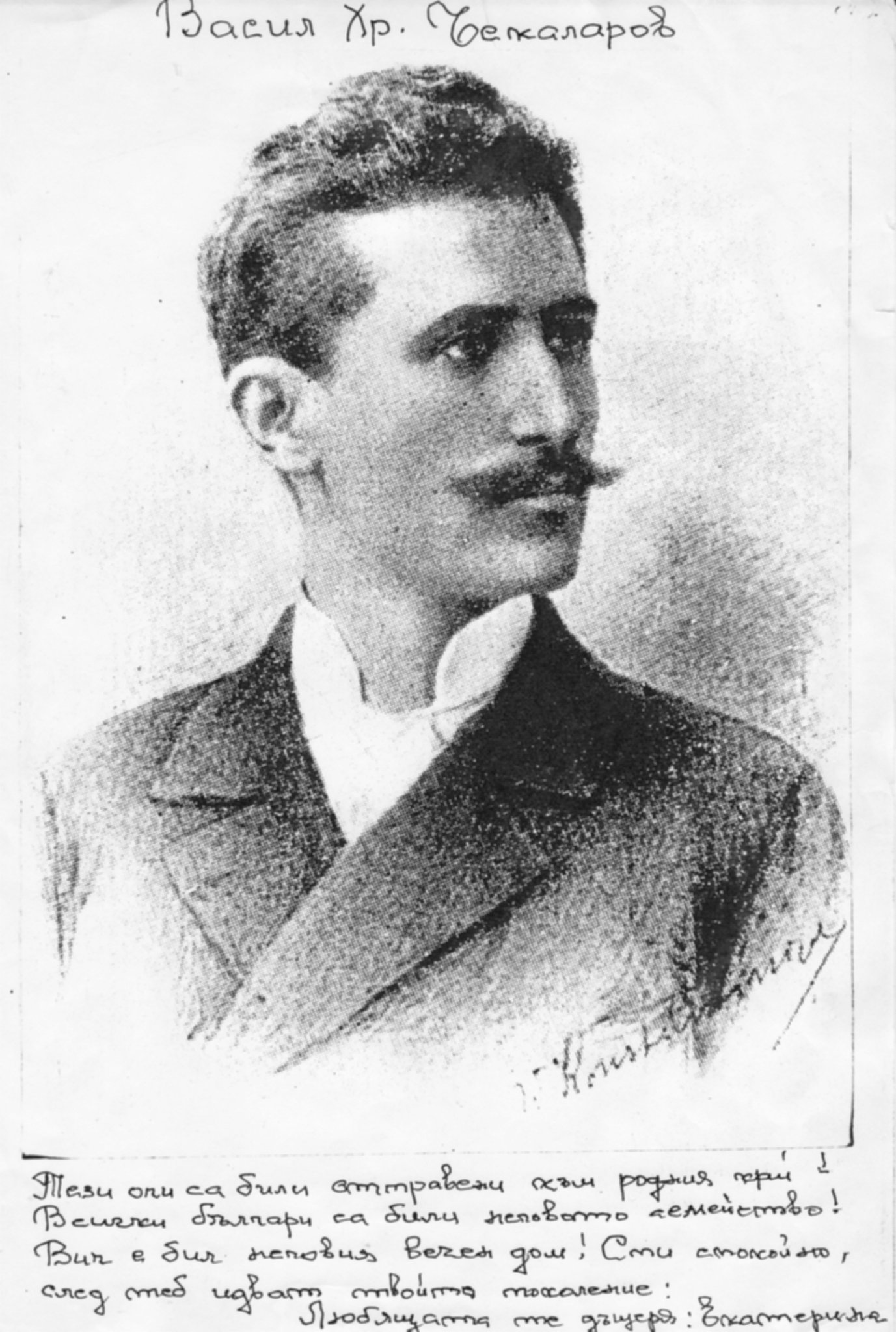 Postcard of bulgarian revolutionary Vasil Chekalarov, signed by his doughter